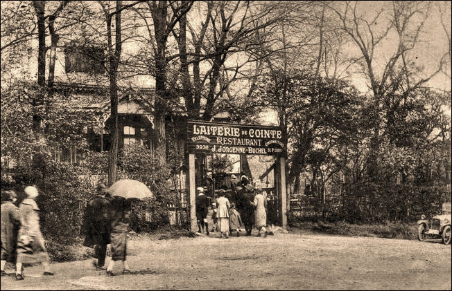 Entrance of the old milk bar in Cointe (Belgium, Liège)